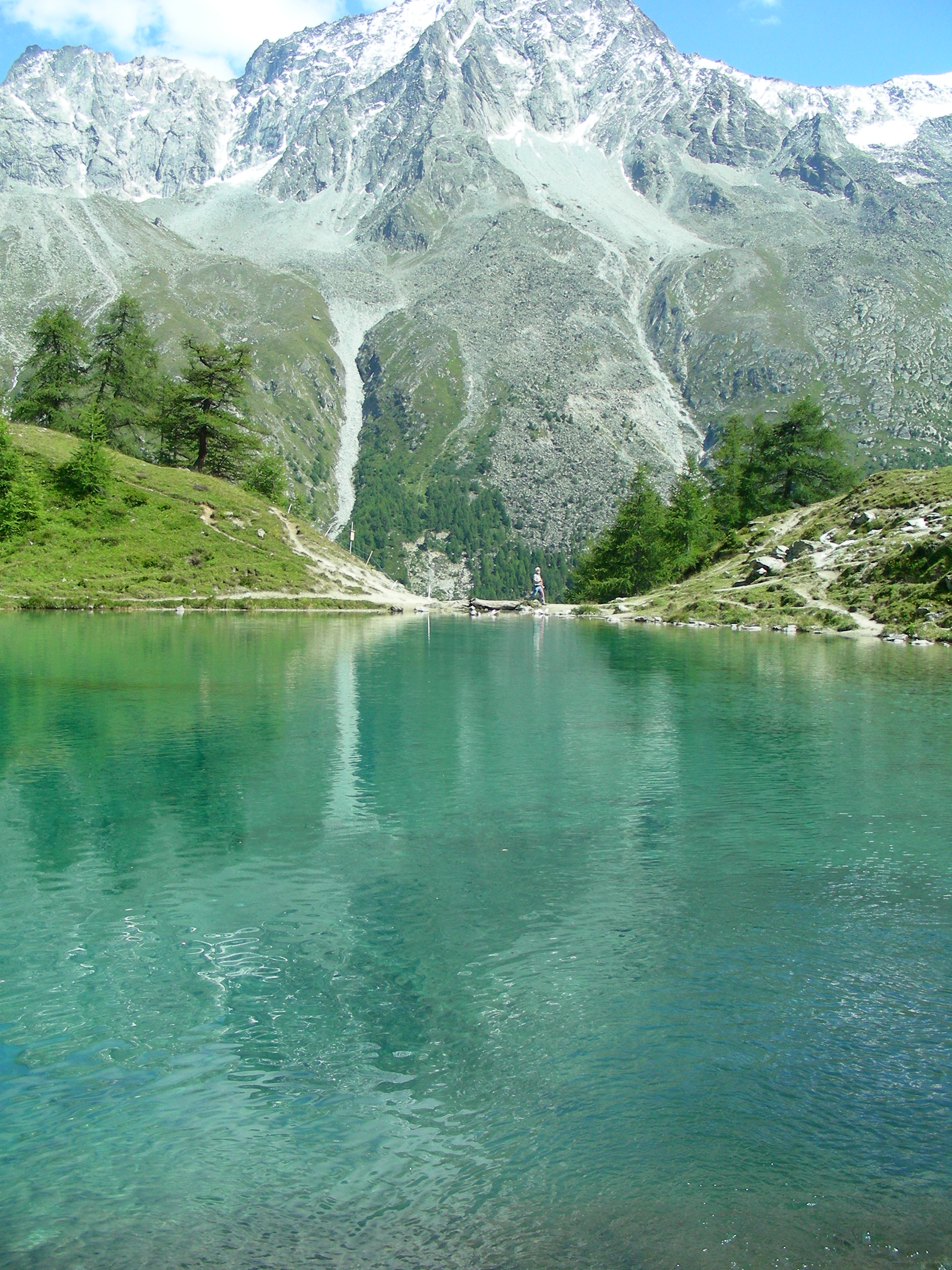 Lac Bleu in Val d'Hérens